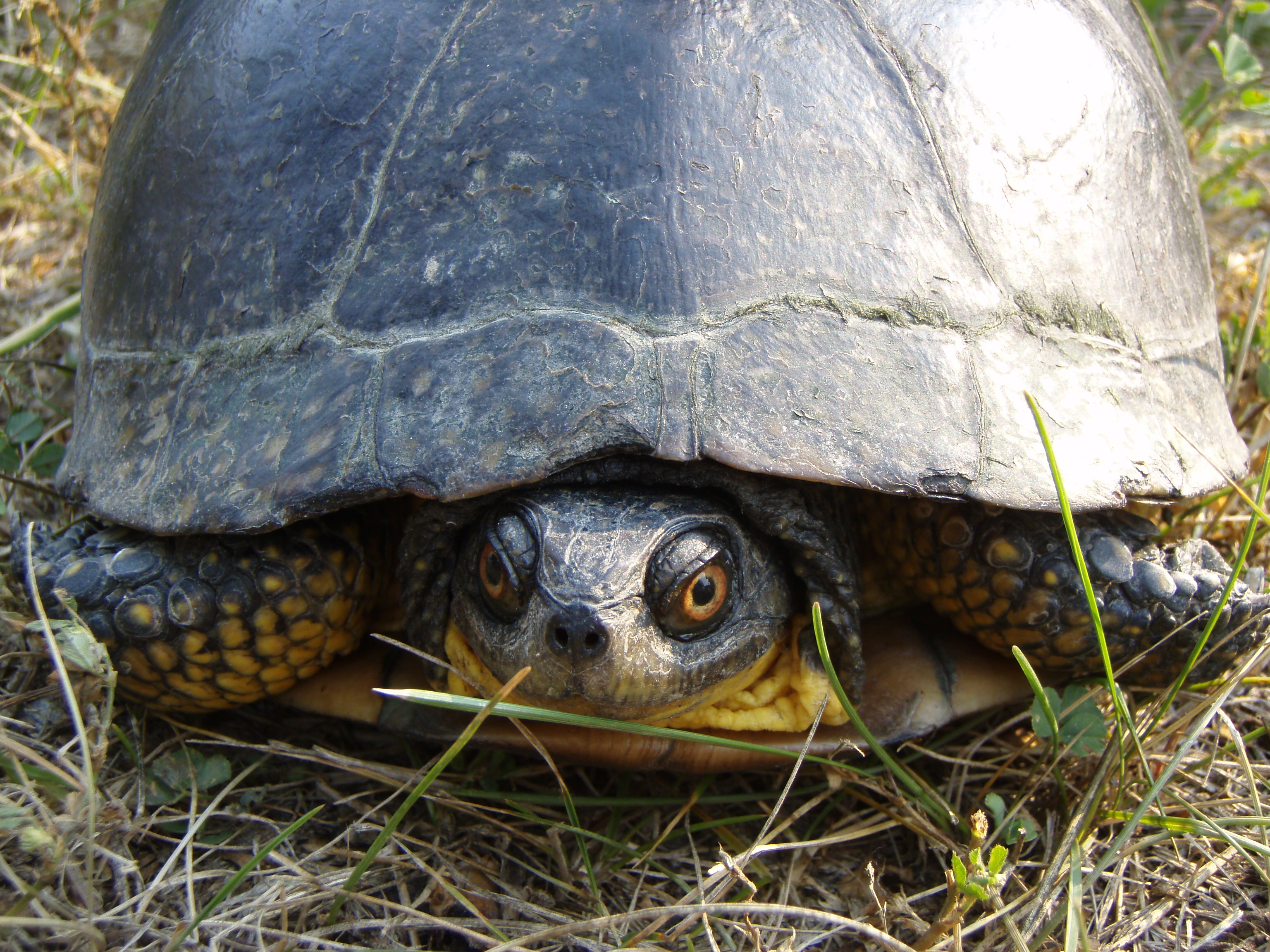 Emydoidea blandingii near Toronto, ON, Canada